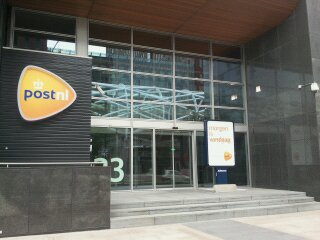 Main entrance of the headquarter of PostNL.